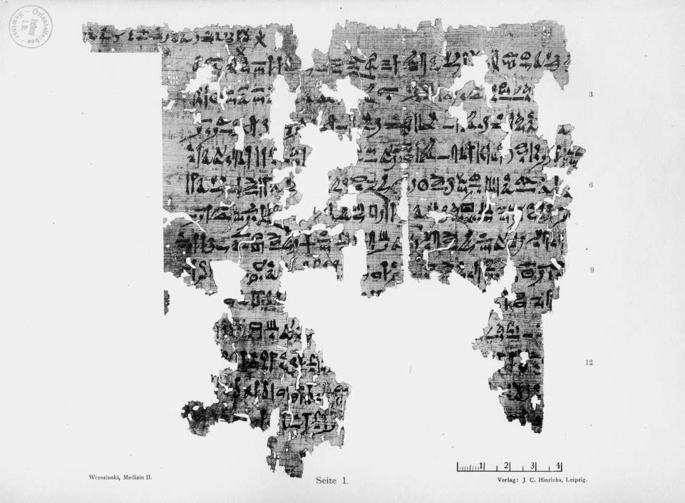 Plate 1 of London Medical Papyrus